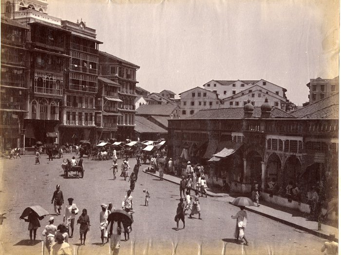 "Bombay," c.1890's, by John Mitchell Holms (1863-1948), a British officer and administrator